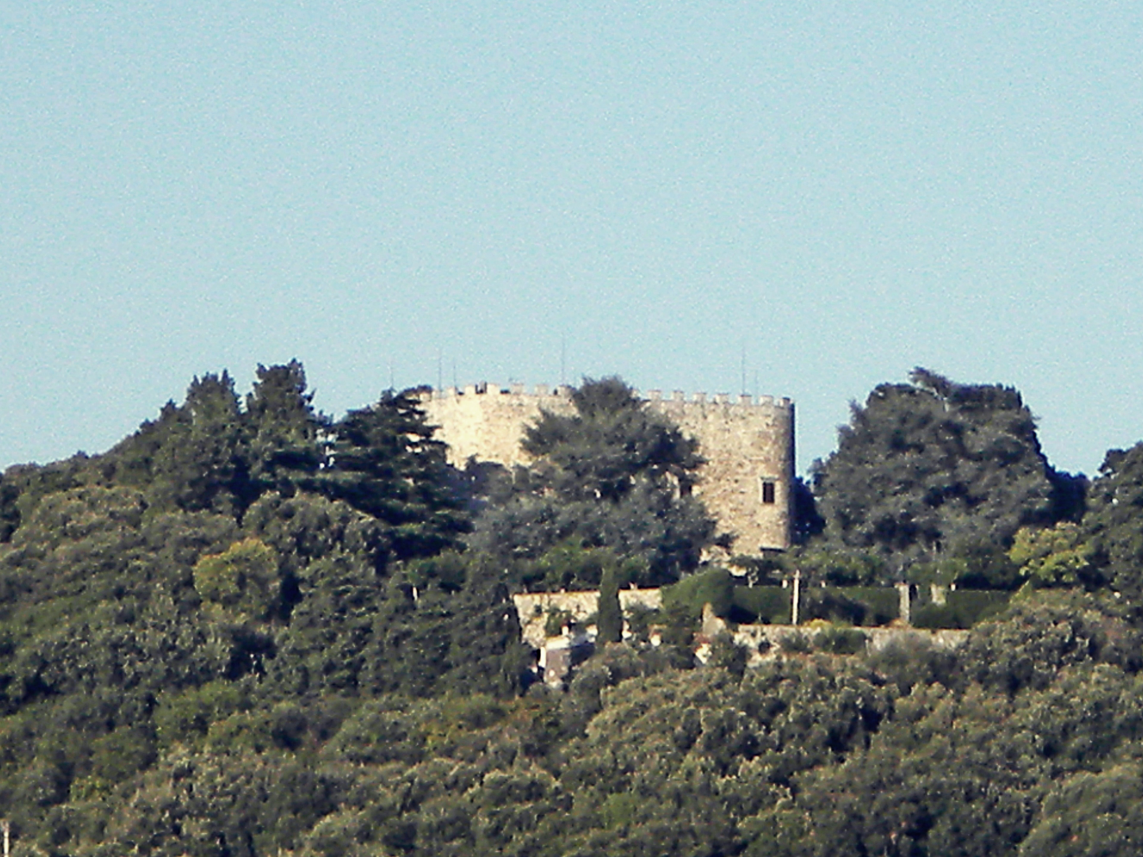 fortress